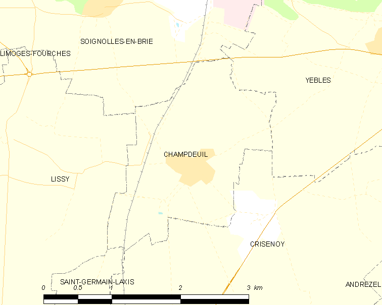 Map of French municipality Champdeuil